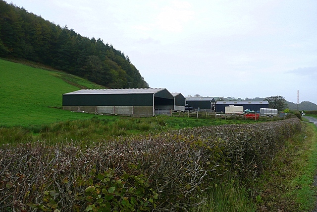 Buildings at Alltygaer New barns at the farm below Allt y Gaer Wood.